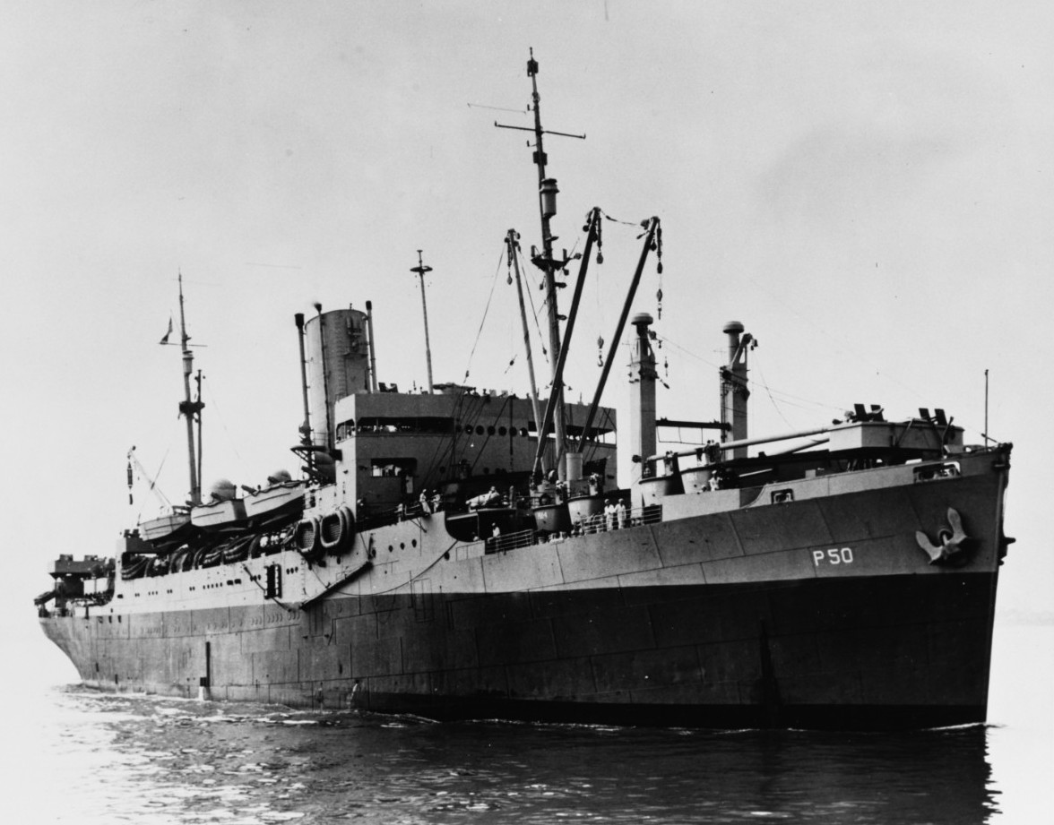 Joseph Hewes (AP-50) underway, 1942, place unknown. US Navy photo.